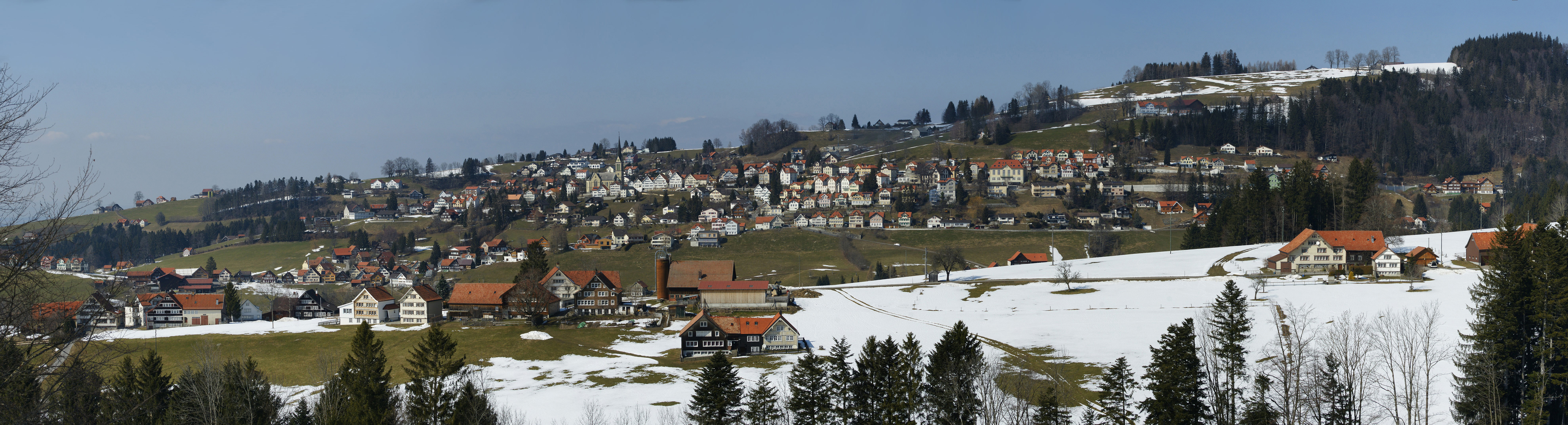 Panoramic views over the village Rehetobel. In the upper right corner of the picture of Gupf.